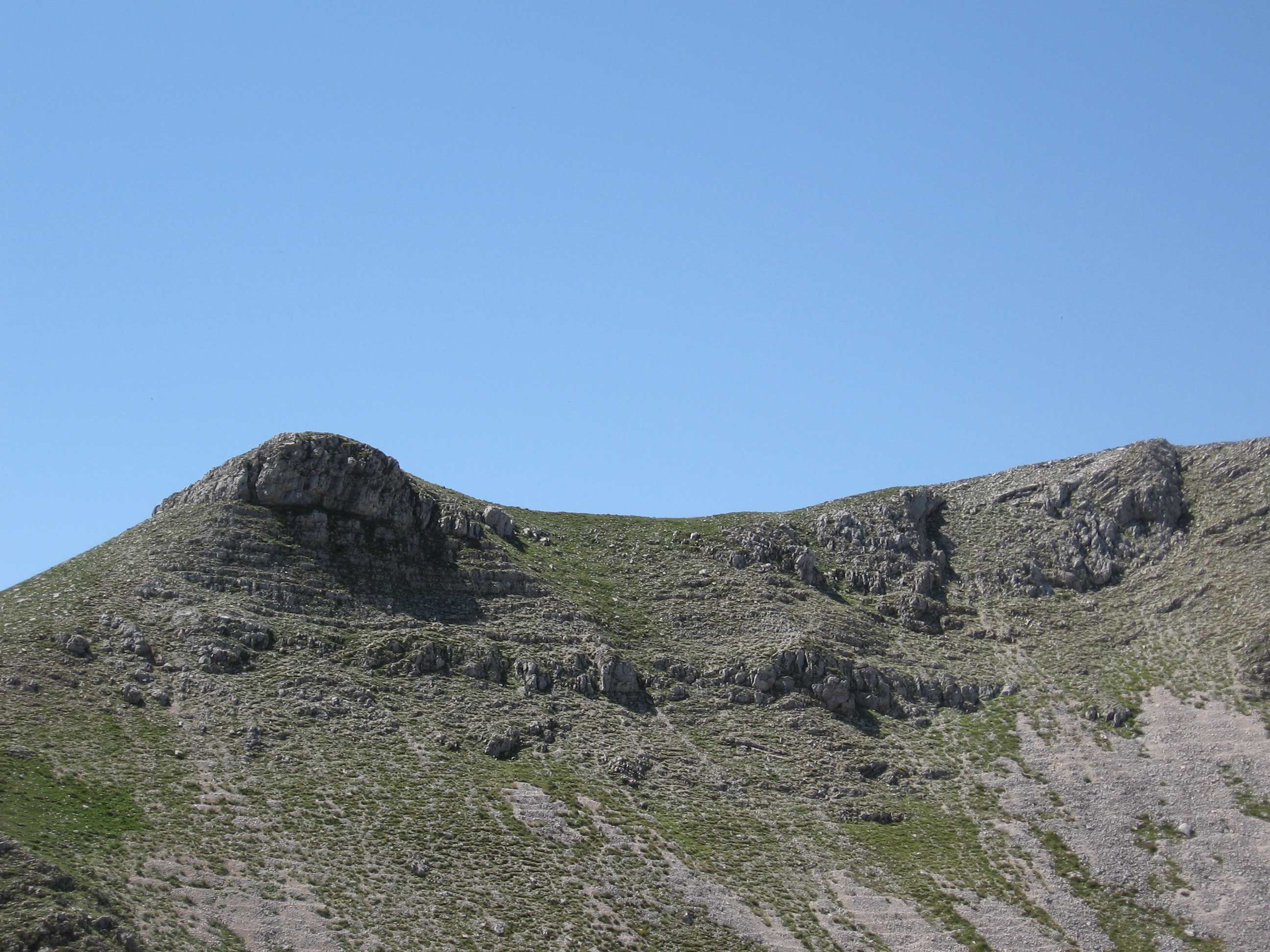 Lakmos (Peristeri) mountain, Epirus, Greece